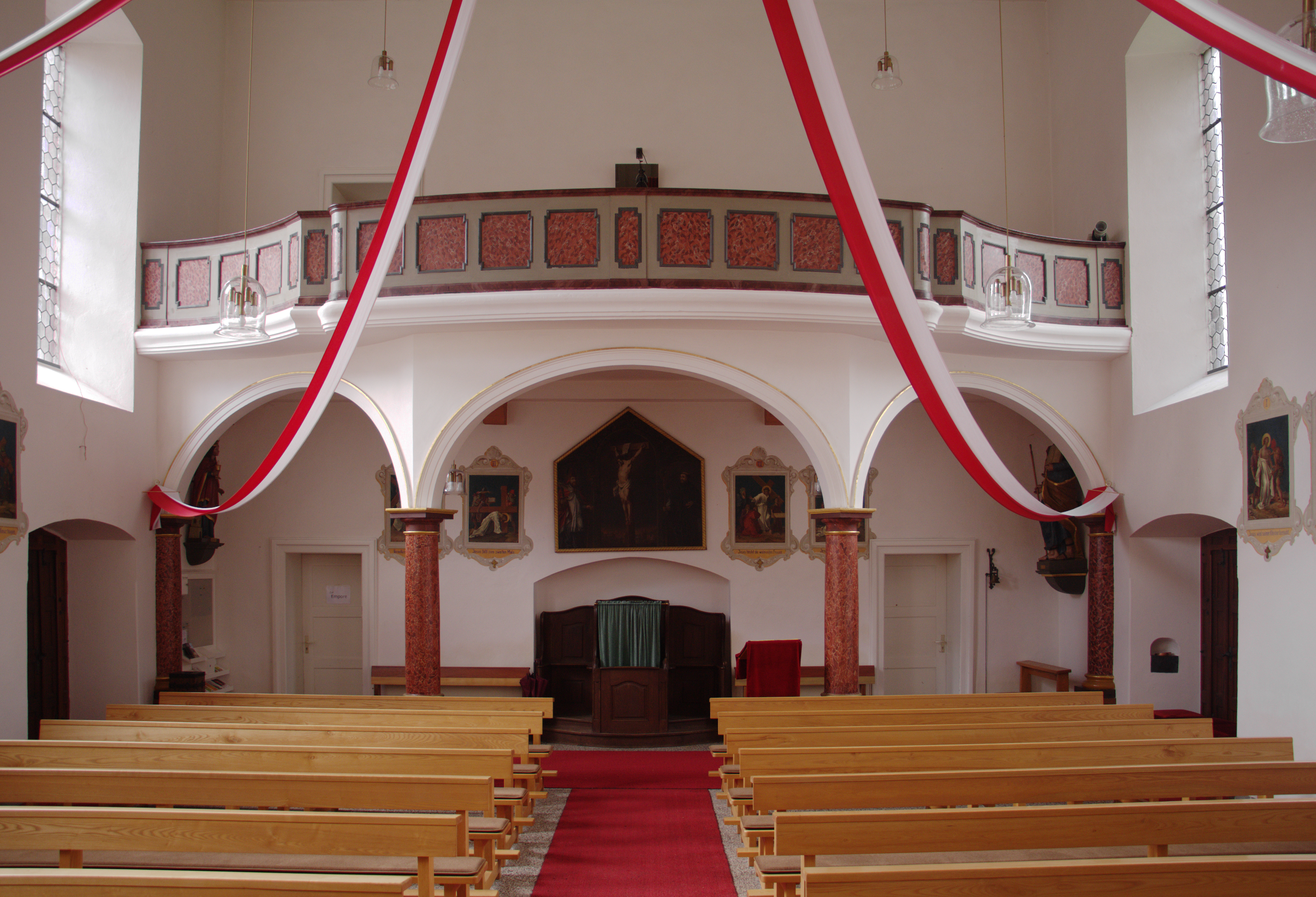 Pilgrimage chapel "Kleinheiligkreuz" (Confessional) in Kleinlueder, Grossenlueder, Hesse, Germany